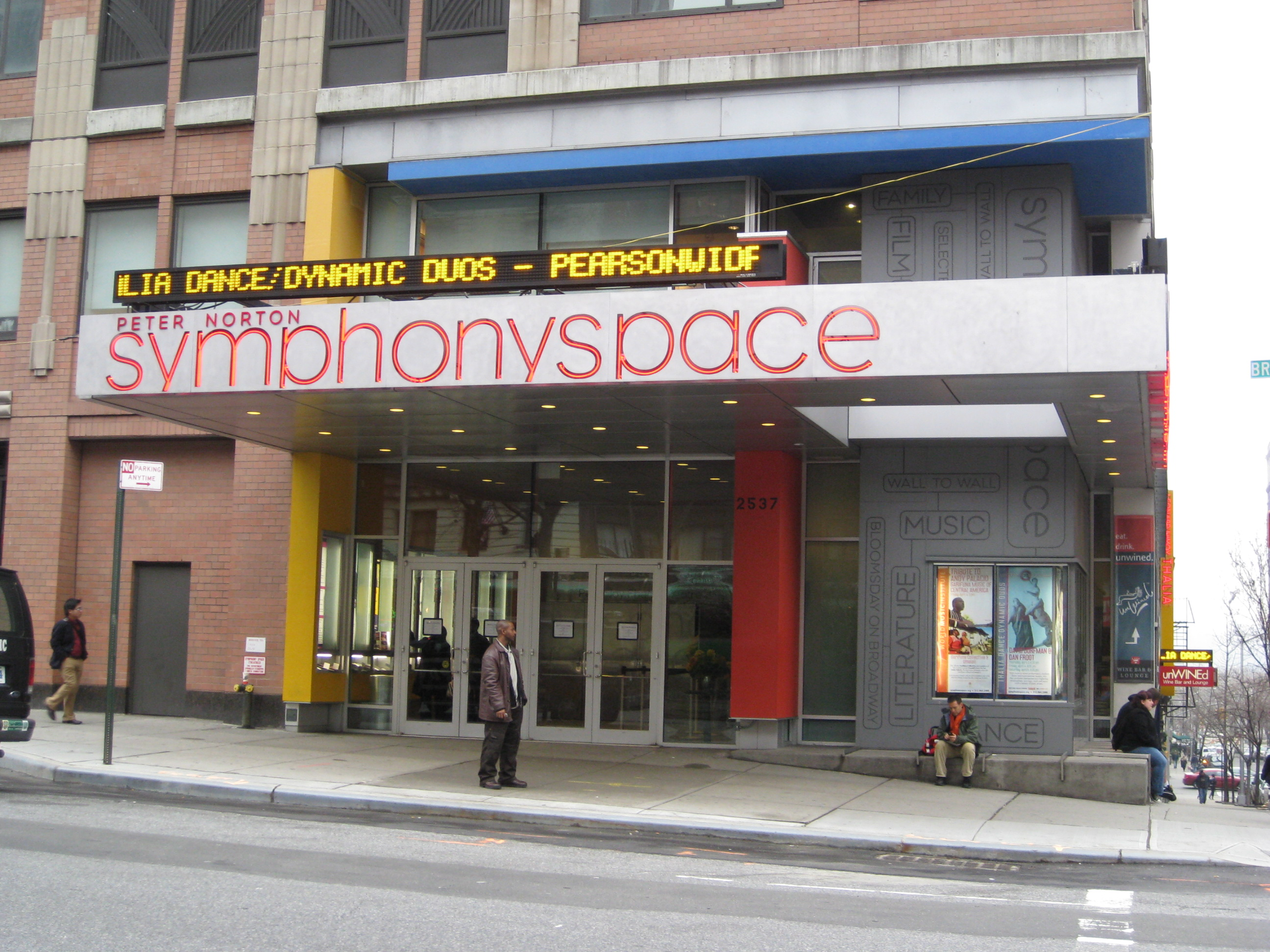 This photo is of Wikipedia Takes Manhattan location code 21, Symphony Space.